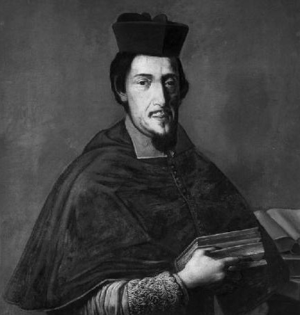 Portrait of Carlo Francesco Ceva (1625–1700), Roman Catholic Bishop of Tortona. This painting is held in the Pinacoteca Ambrosiana